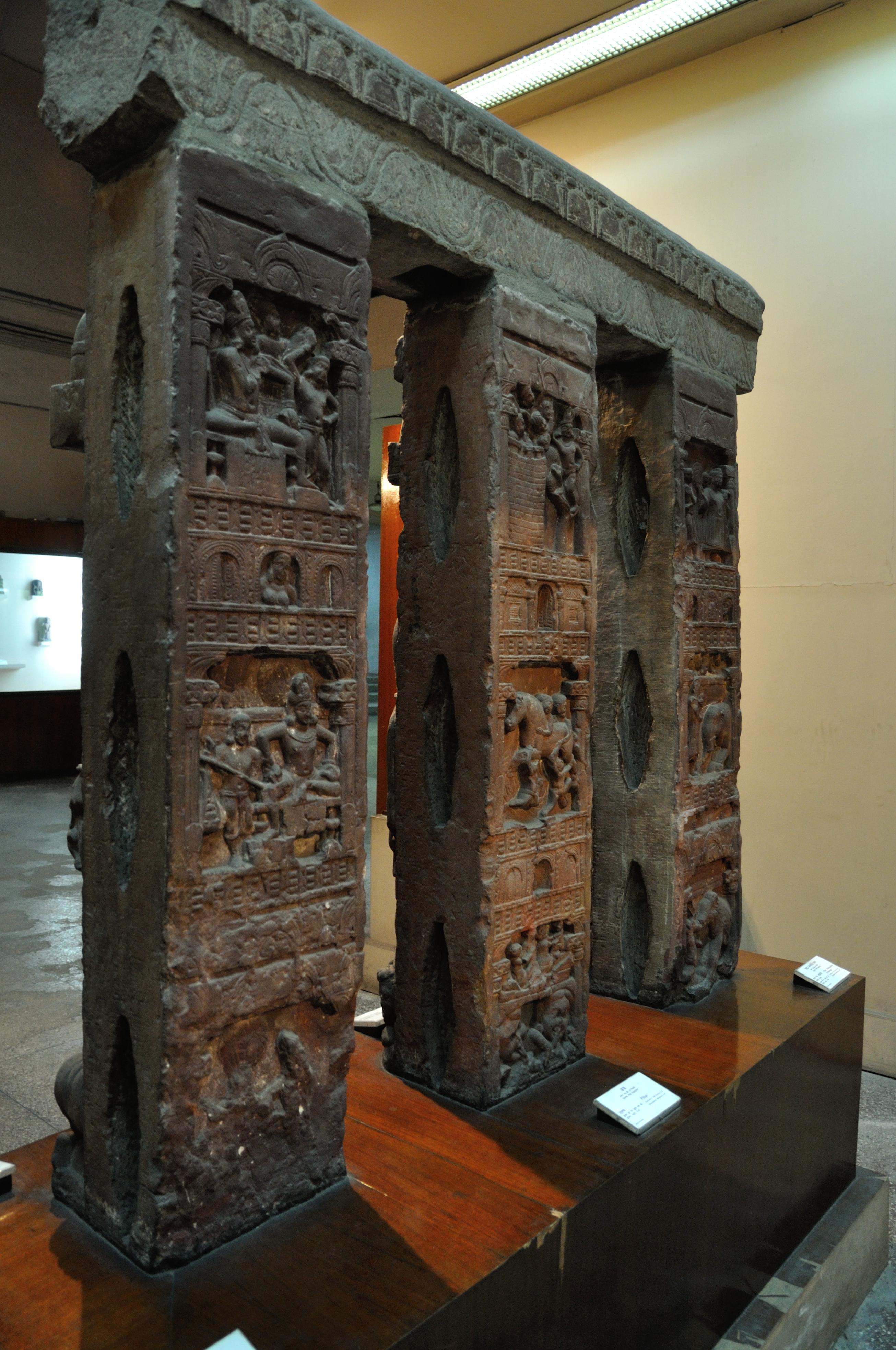 Photographed at the Long Archaeology Gallery of Indian Museum, Kolkata.